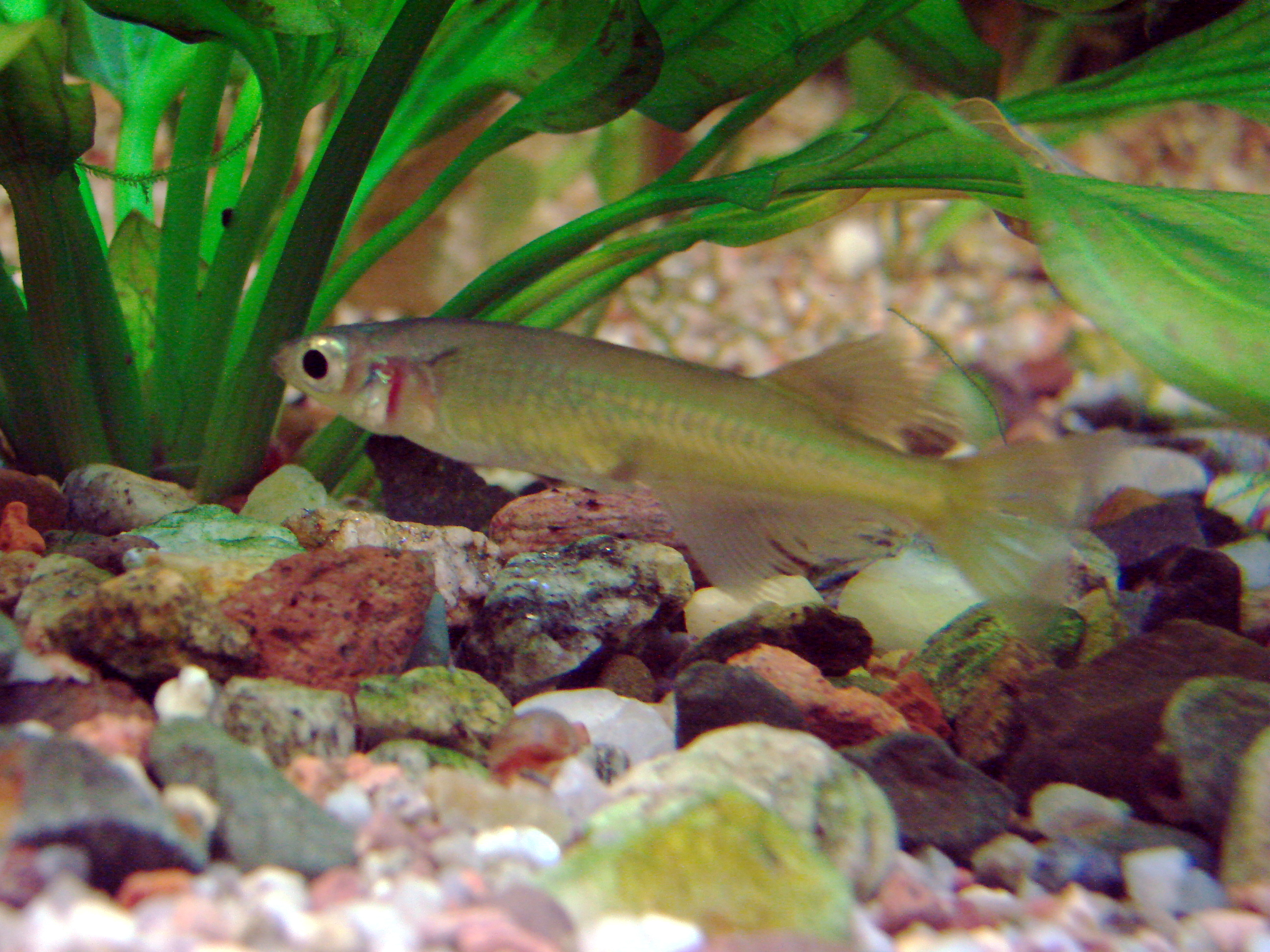 Picture taken in the zoo of Wrocław (Poland): Xenopoecilus sarasinorum (Popta, 1905)